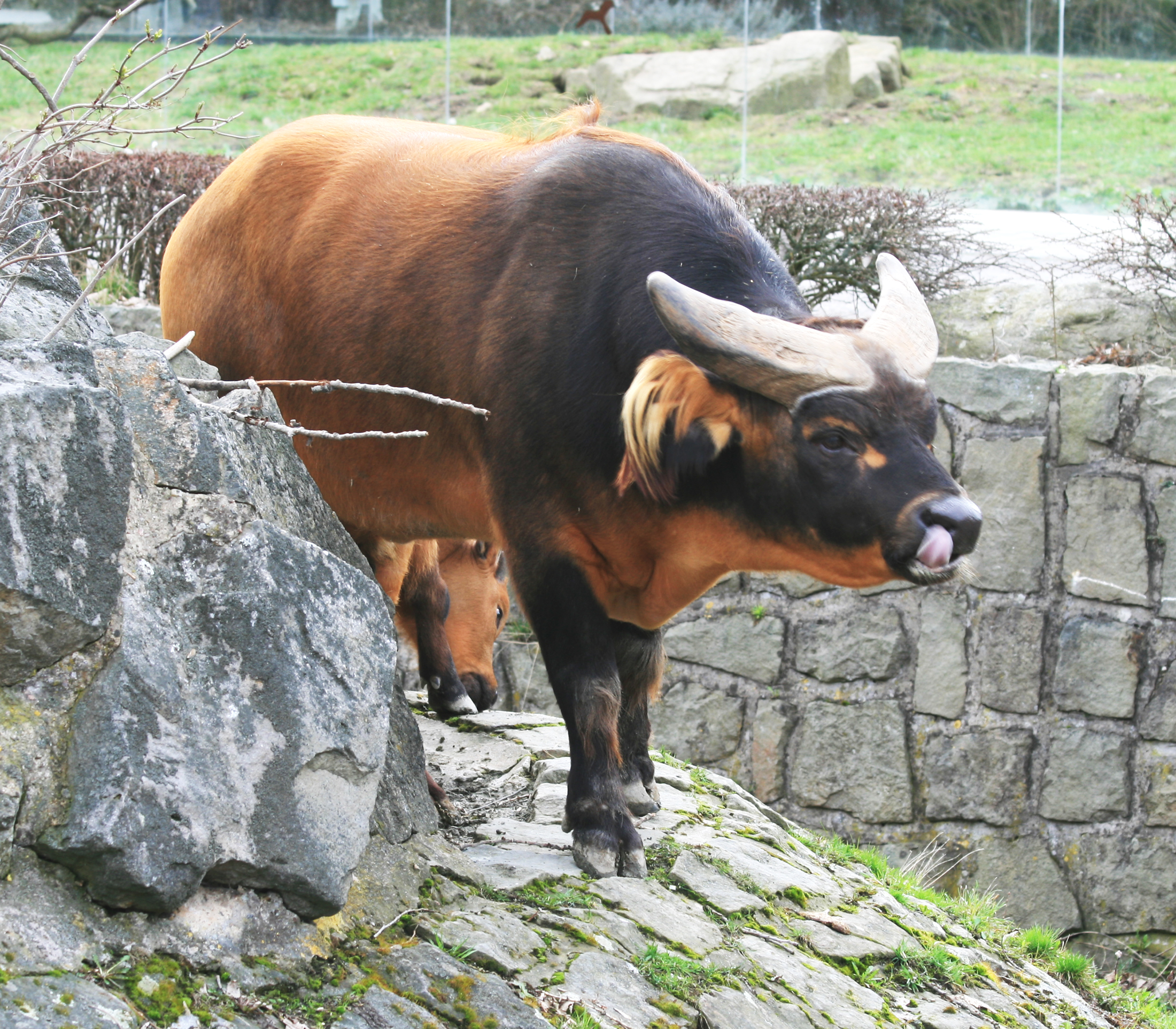 African Forest Buffalo, Syncerus caffer nanus in ZOO Dvůr Králové, Czech Republic